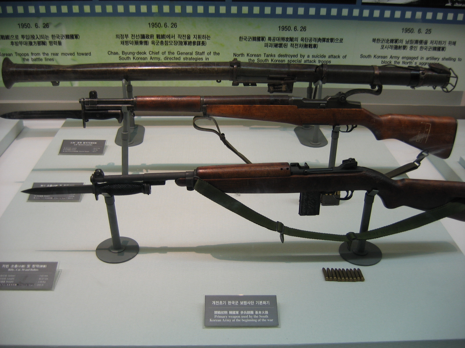 Basic Infantry arms for army of South Of Korea(1950, Korean War) which is displayed at Yongsan War Memorial in Seoul, Korea.